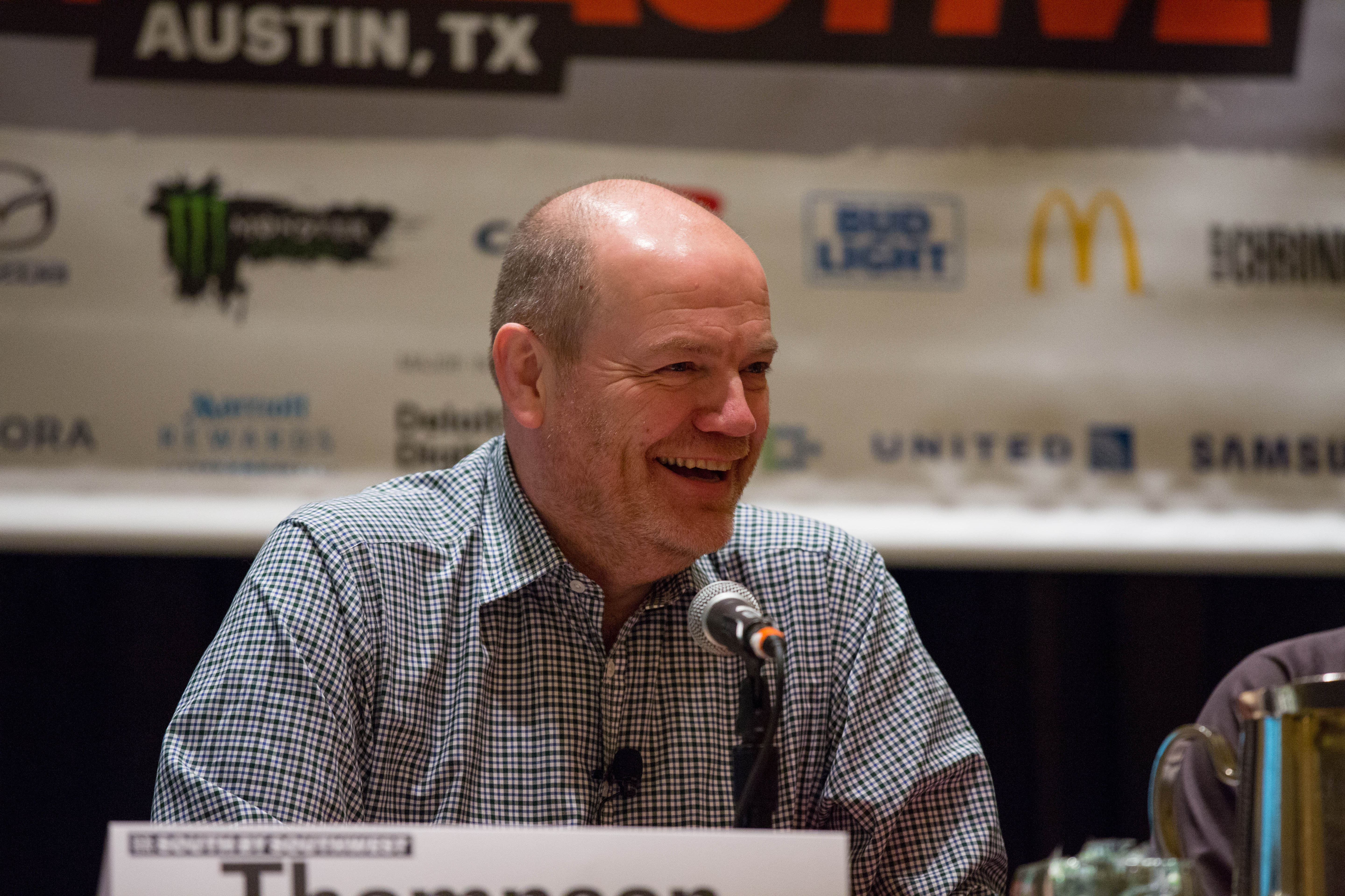 Mark Thompson (media executive)